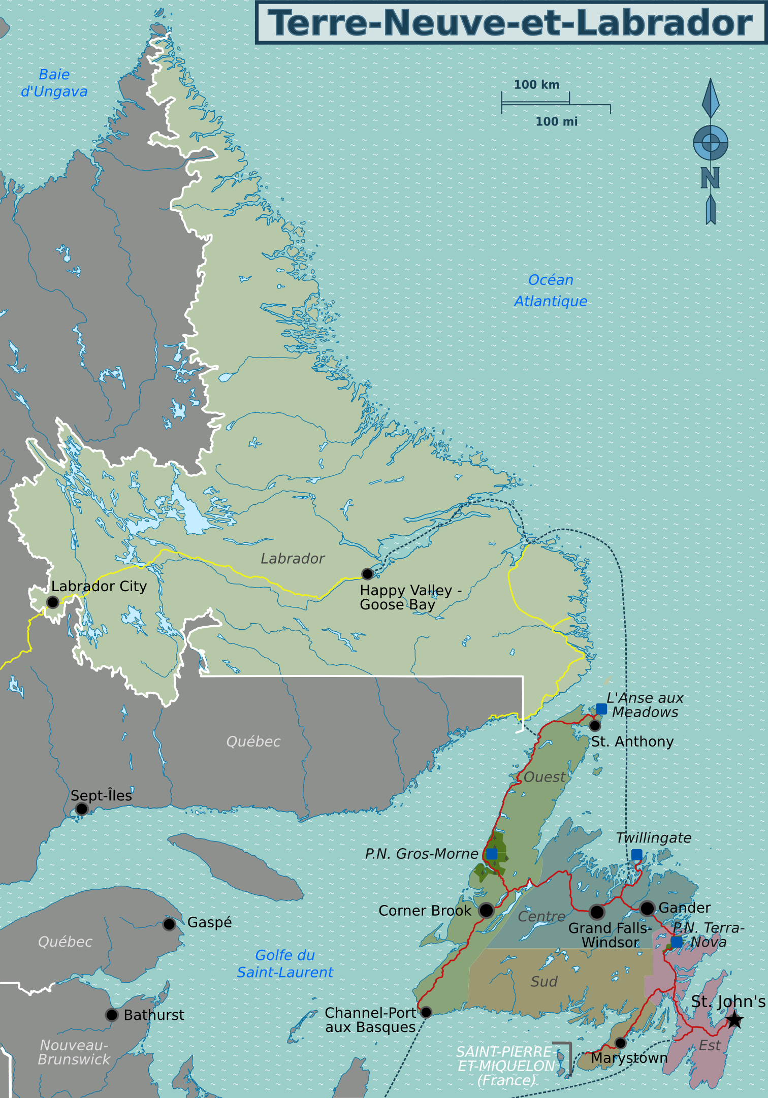 Map of Newfoundland and Labrador for use on Wikivoyage, French version